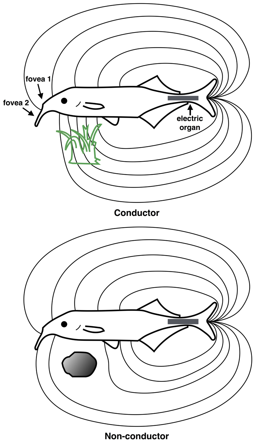 The “electric image” of the external environment is determined by the conductive properties of surrounding objects. The electric field emanates from the electric organ in the tail region (gray rectangle) and is sensed by the electroreceptive skin areas, using two electric “foveas” to actively search and inspect objects. Shown are the field distortions created by two different types of objects: a plant that conducts better than water, above (green) and a non-conducting stone, below (gray). Based on: Heiligenberg, Walter (1977) Principles of Electrolocation and Jamming Avoidance in Electric Fish: A Neuroethological Approach Springer-Verlag. ISBN 9780387083674.